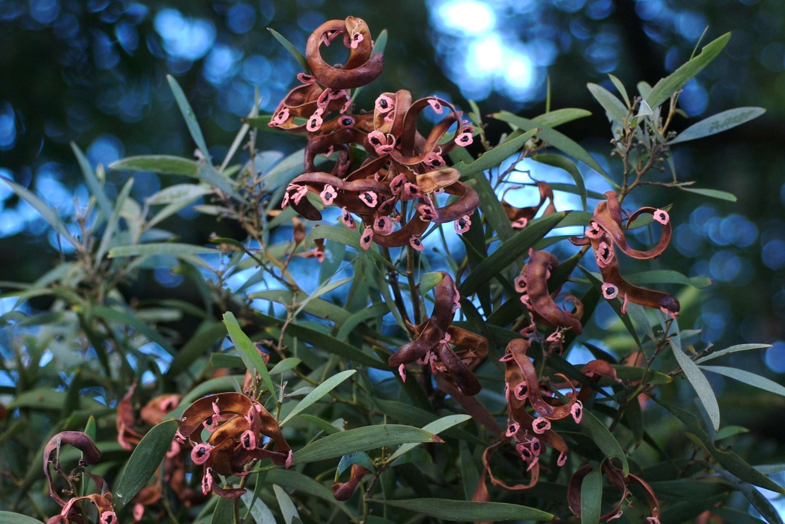 Seeds of Acacia melanoxylon showing the distinctive aril. Growing as a street tree in San Francisco, California, USA